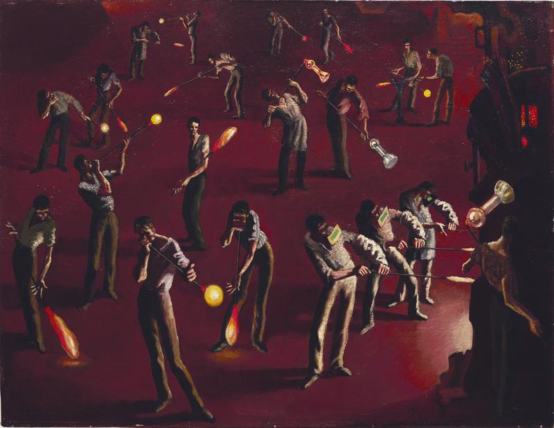 A factory floor with several workers at different stages of the glass blowing process, illuminated by the glow from furnaces.